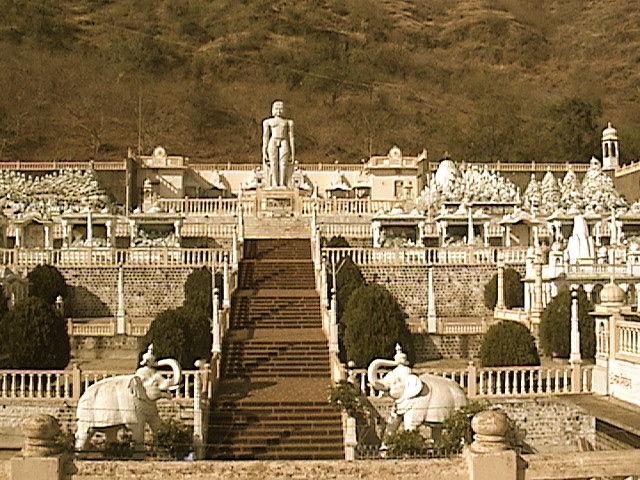 Capt. Vijay Khot Jain Bahubali Teerta Jainism Pilgrimage Kolhapur Kumbhoj Jaysingpur Category:Jainism images Summary Capt. Vijay Khot Jain Bahubali Teerta Jainism Pilgrimage Kolhapur Kumbhoj Jaysingpur